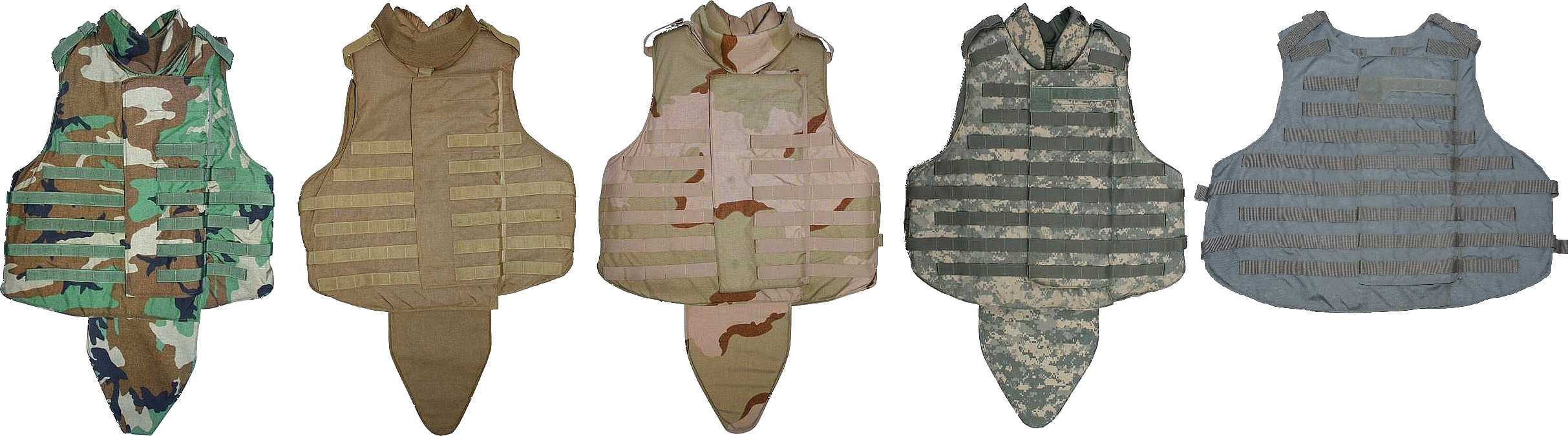 The Interceptor Body Armor, in four different camouflage variants. From left to right: M81 Woodland, Coyote Brown, Desert Camouflage Uniform, and Universal Camouflage Pattern and Afghan police grey.